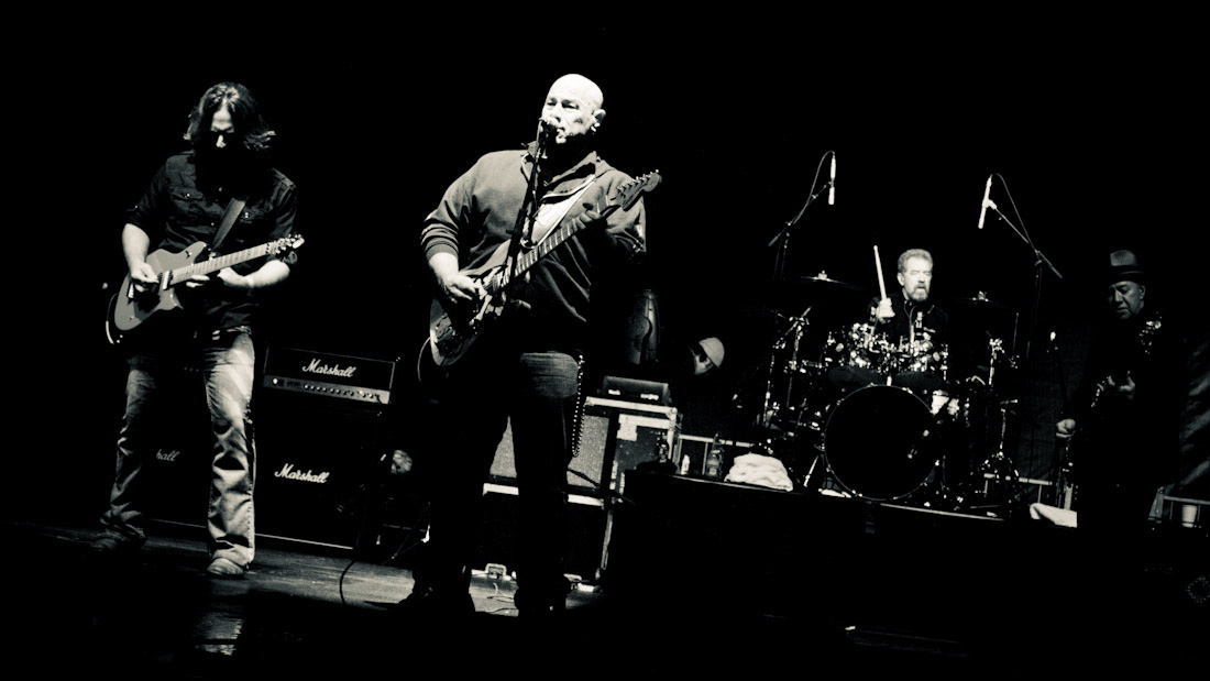 Band performed immediately after the Miller Motorsport SBK world championship event on May 29 2011